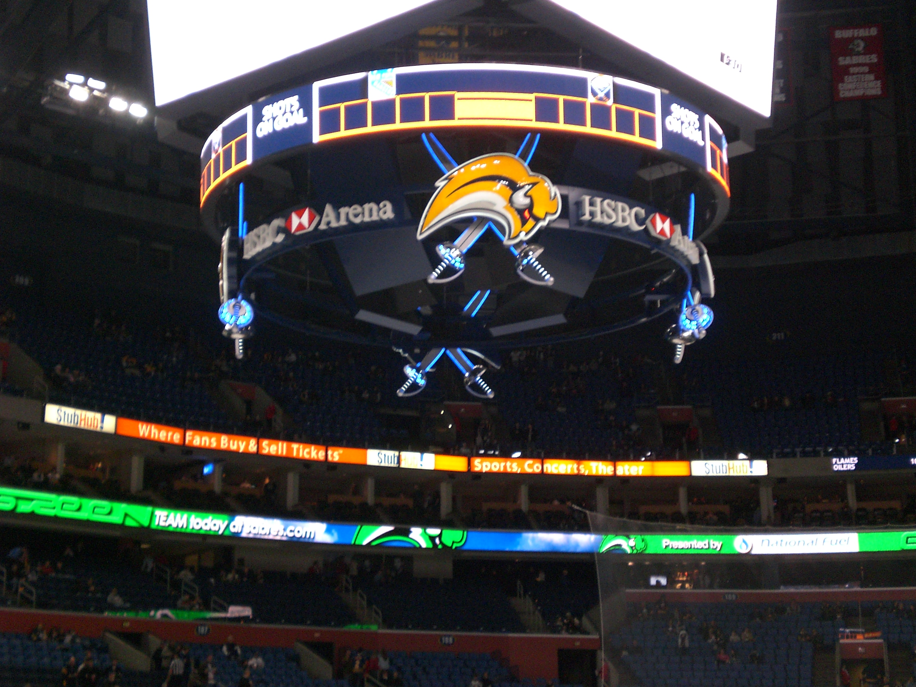 Sabres Jumbo Tran